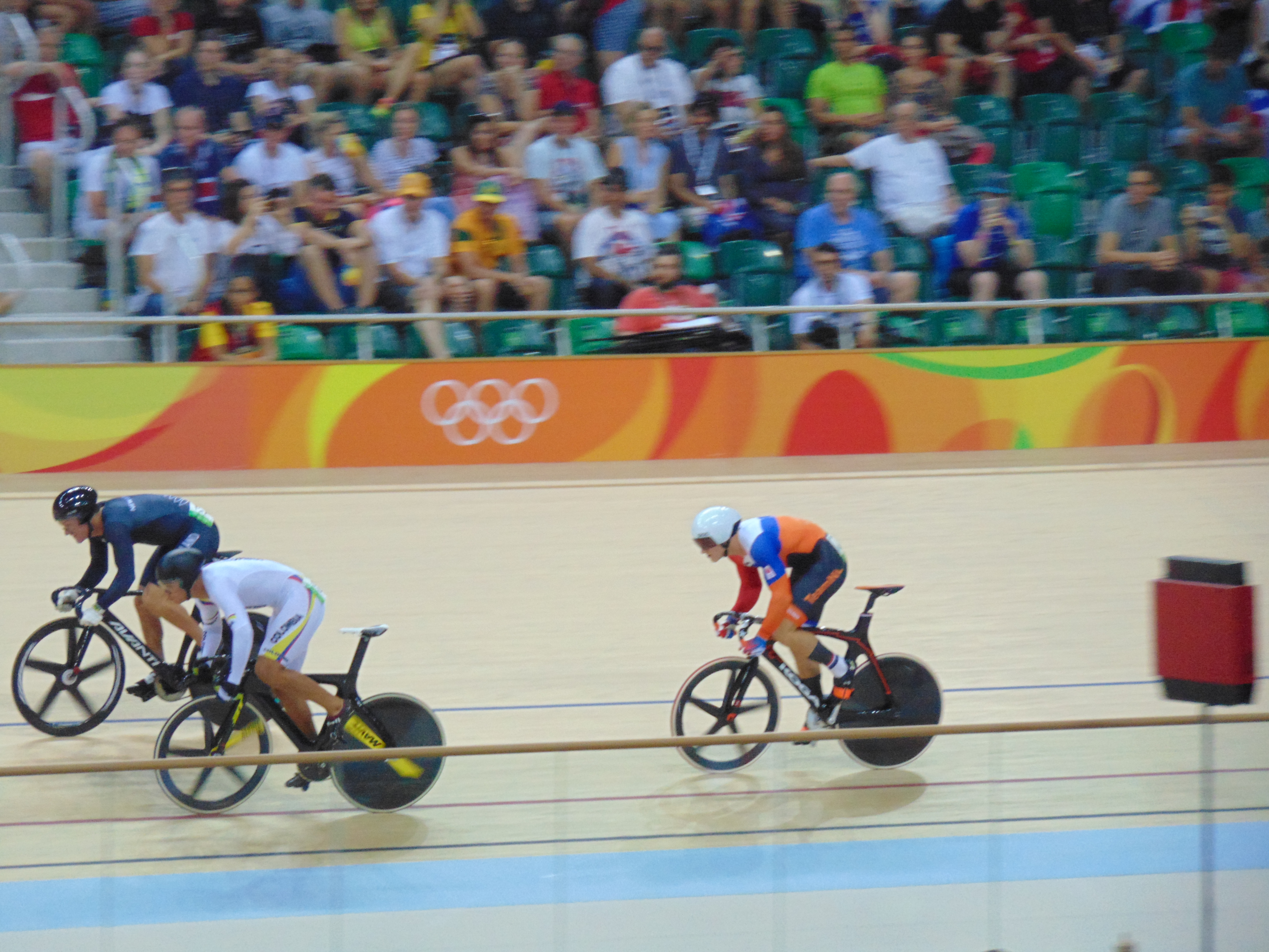 9th—12th place classifications